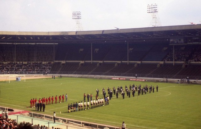 Inside the old Wembley Stadium, London, England